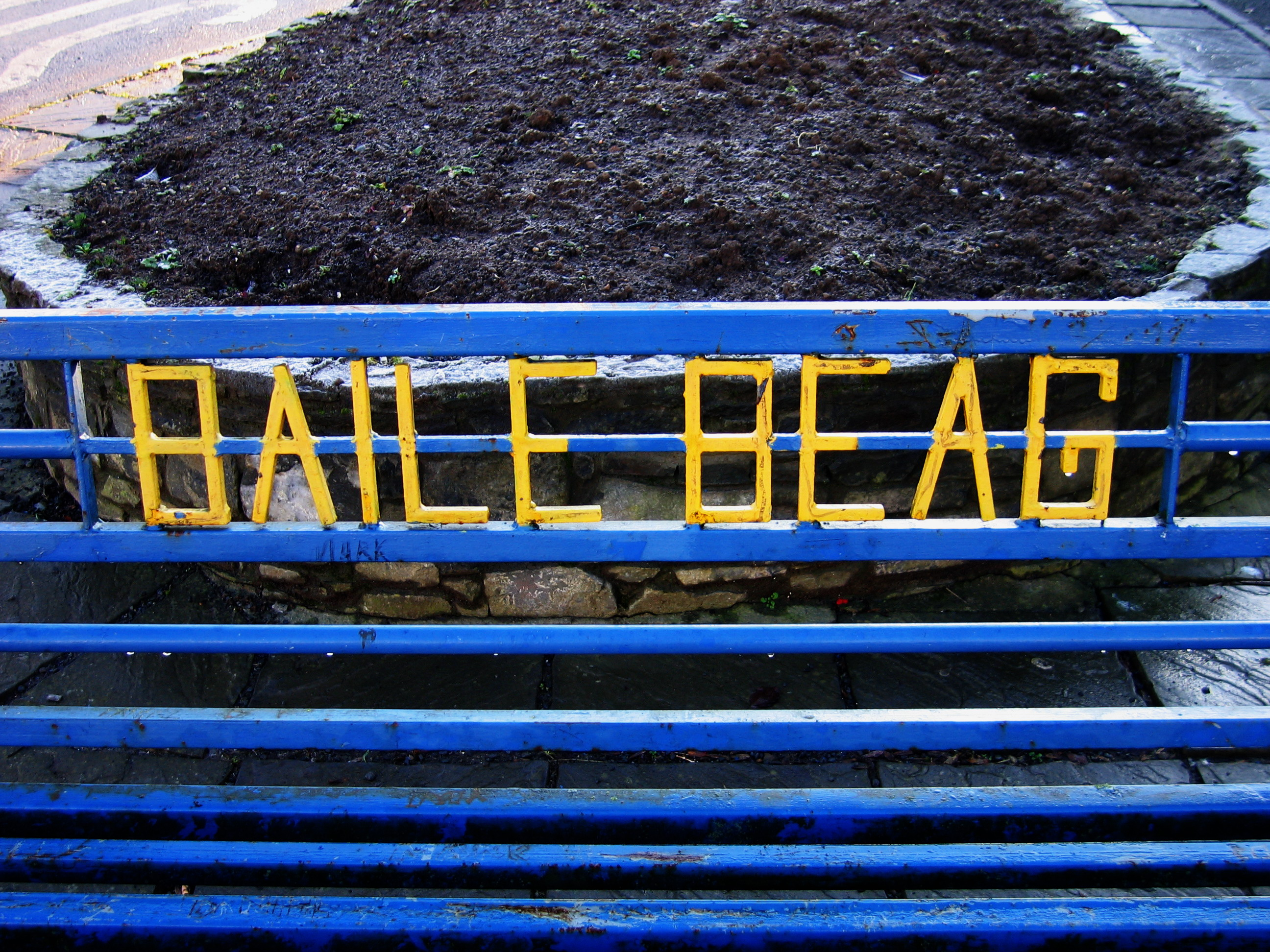 Heritage public seating on the N8 in Littleton! Bit damp on a frosty morning. Very lovingly preserved - note the fresh paintwork.